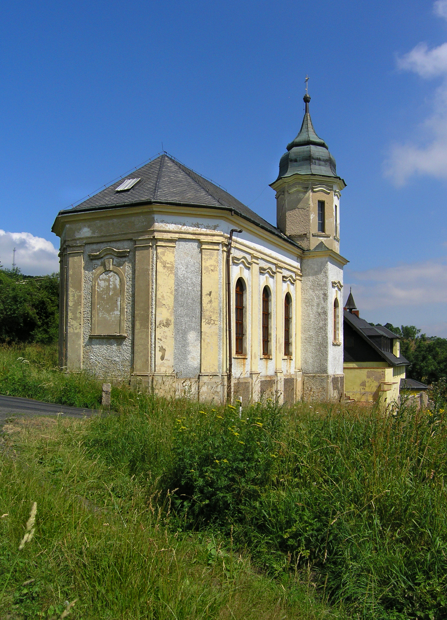 Church in Dlouhá Louka, part of Osek town, Czech Republic